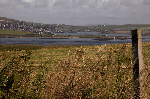 Graemsay fields Looking North over Graemsay fields. Stromness is in the distance.